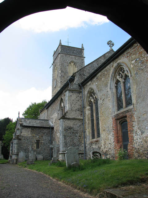 The church of St Peter in Bramerton